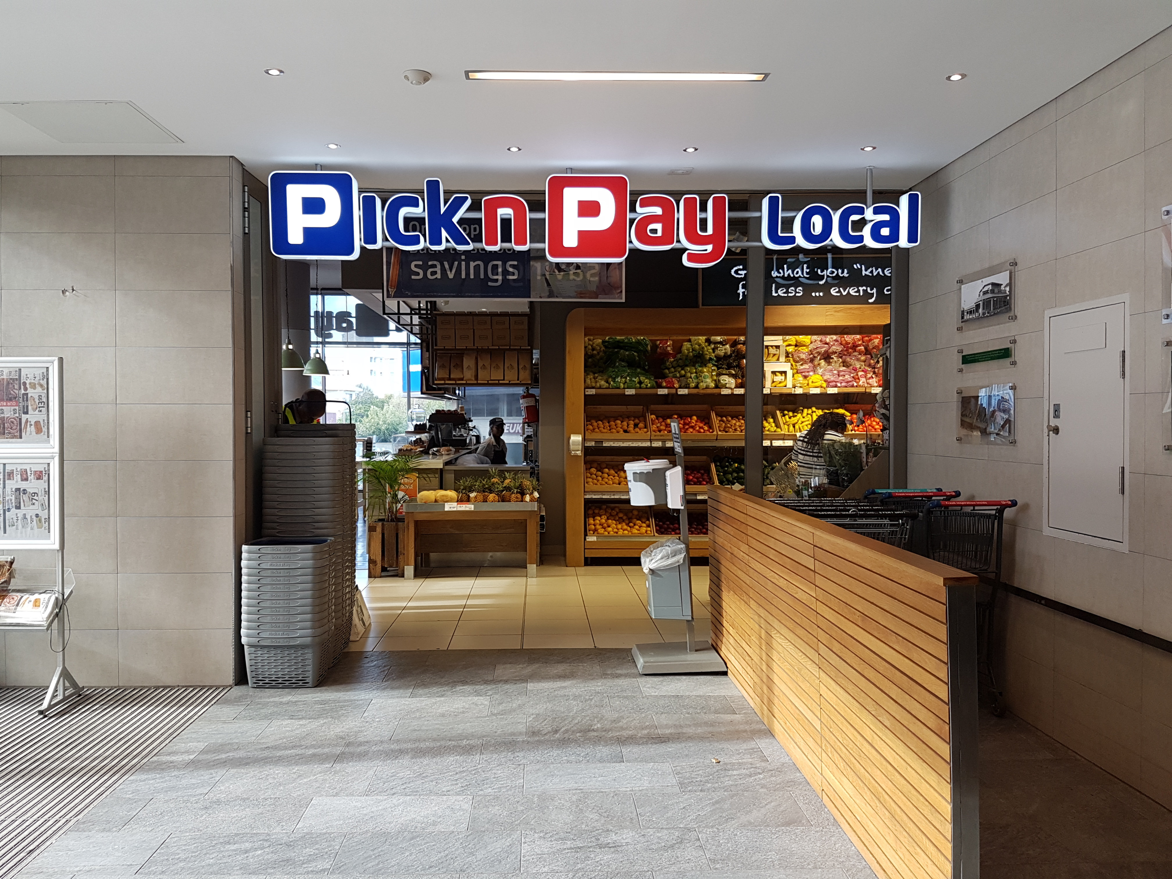 Small format Pick n Pay store in Kenilworth, Cape Town.